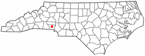 Category:North Carolina Dot Maps